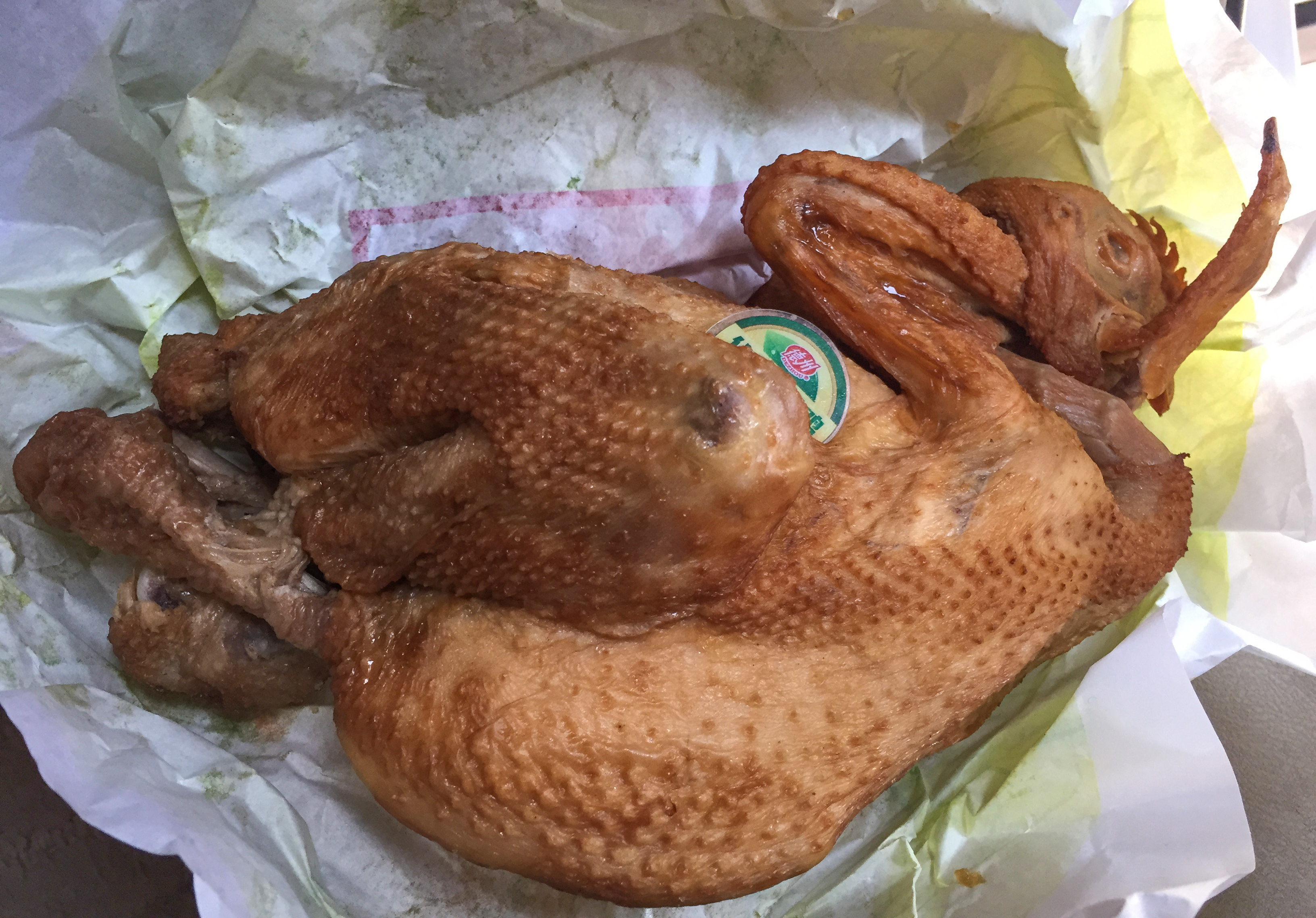 Bought freshly in TX... well, Dezhou, and eaten in Shangqiu.